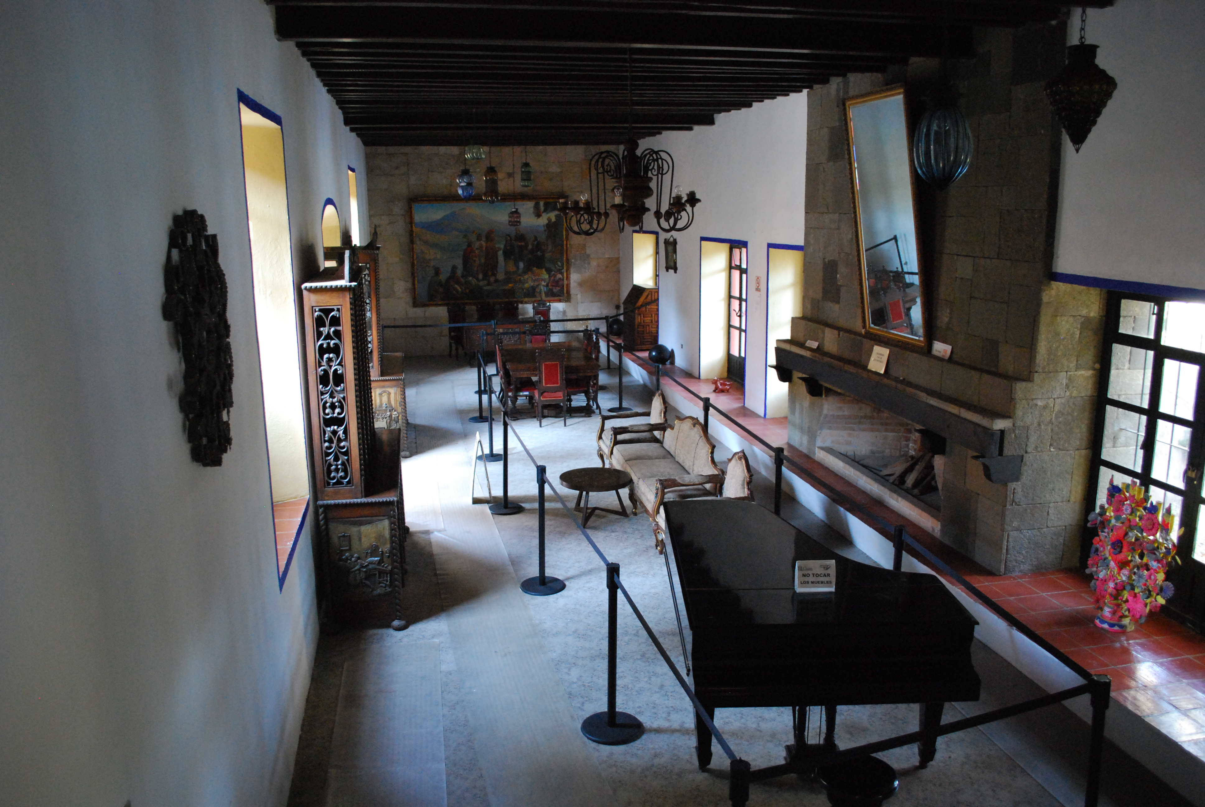 View of the first hall of the site museum of the Chautla Hacienda, San Salvador el Verde, Puebla, Mexico